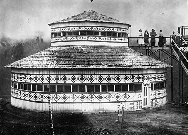 Circular courthouse made by Rua Kenana Hepetipa's disciples in Maungapohatu. Picture taken circa 1908